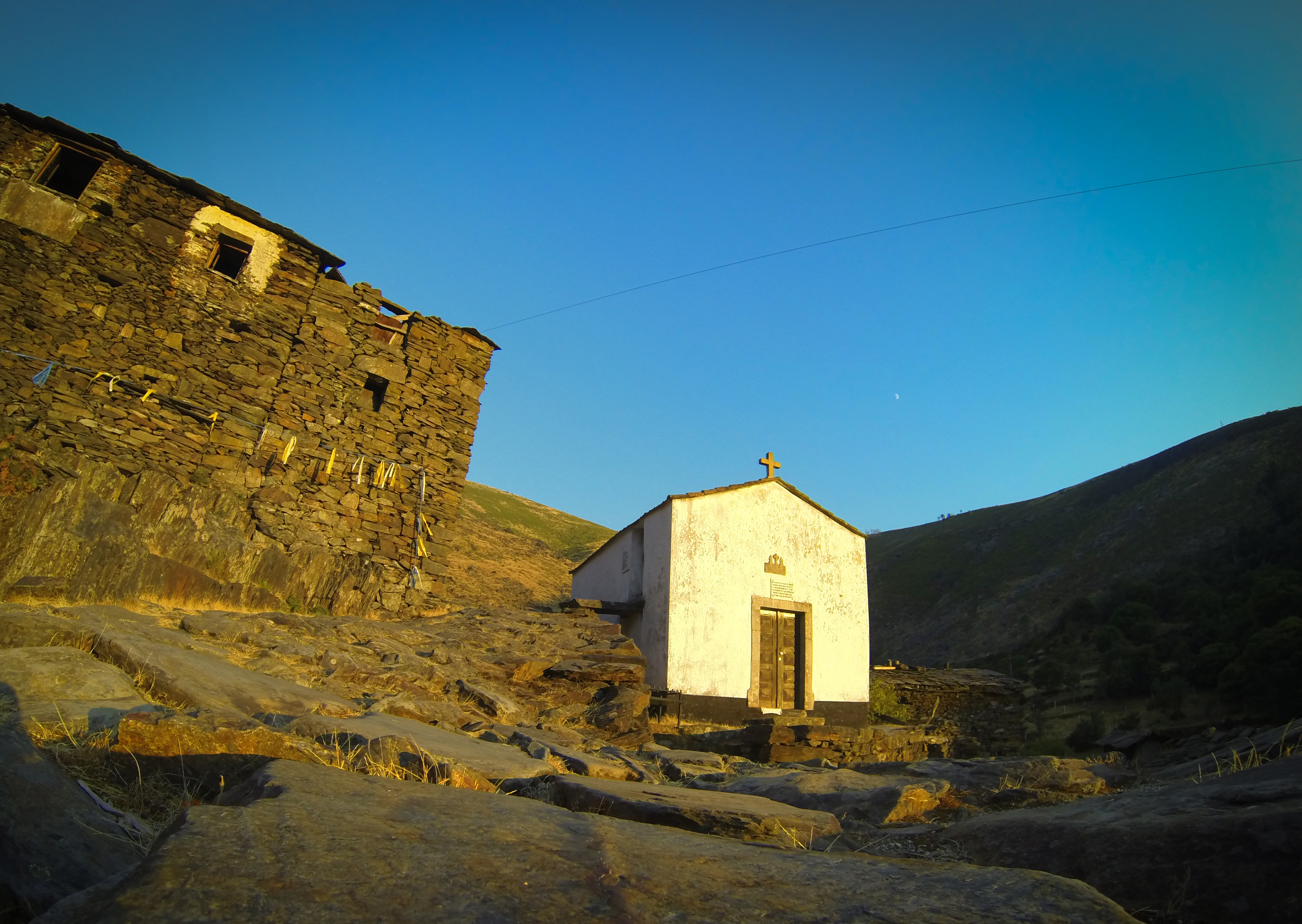 Capela de N. Sra. da Saúde na aldeia da Drave